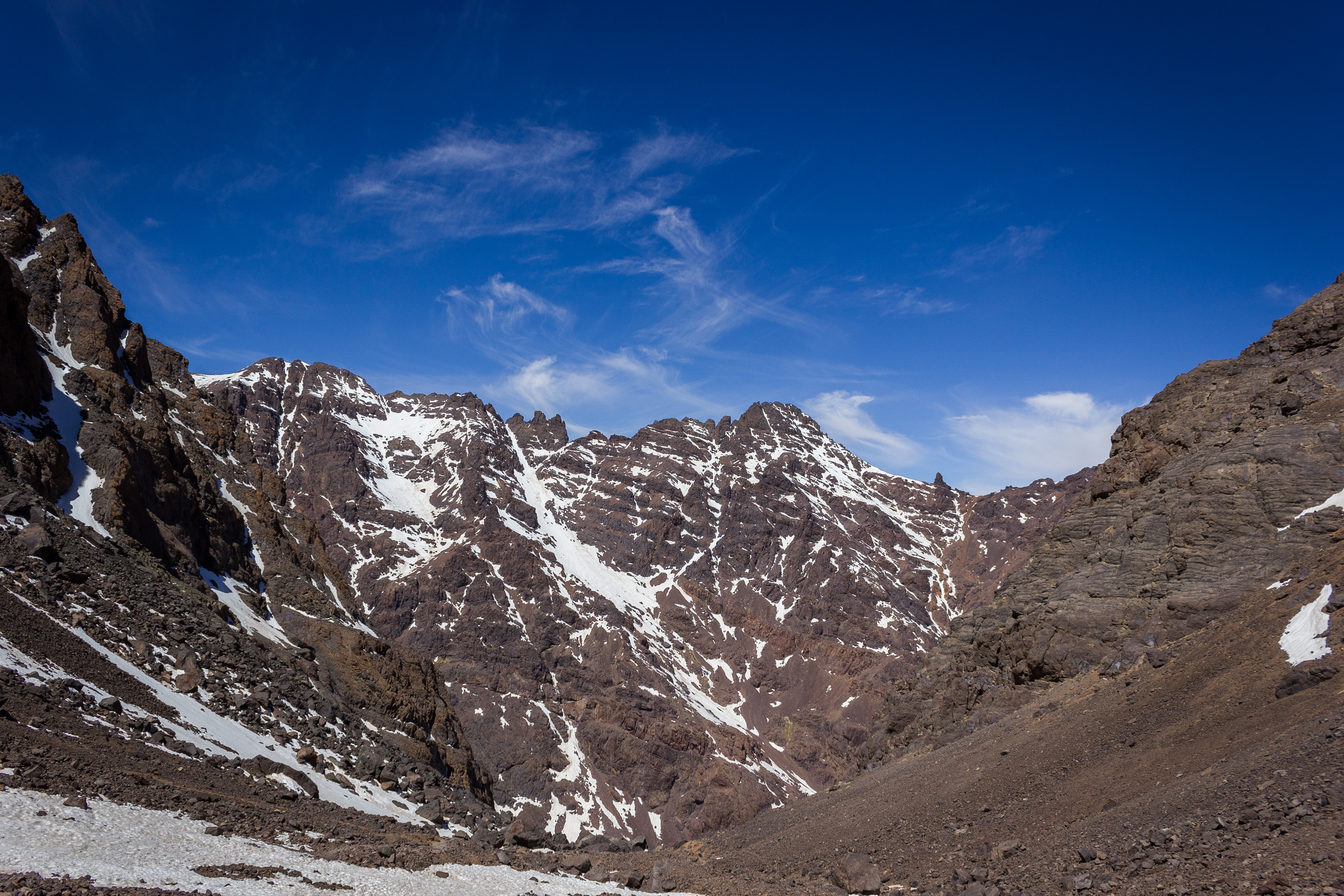 View from common route towards the peaks Biiguinnoussene, Tadat and Tinhararin.